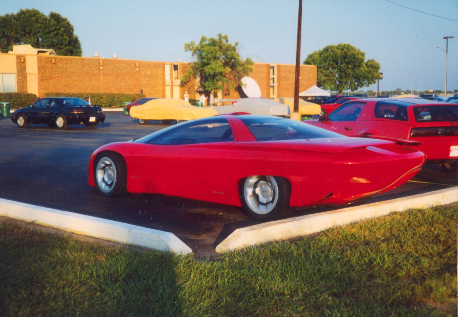 Pontiac Banshee IV concept car, taken at the Dayton (Ohio) airport hotel, during Trans Am Nationals car show, mid-1990s